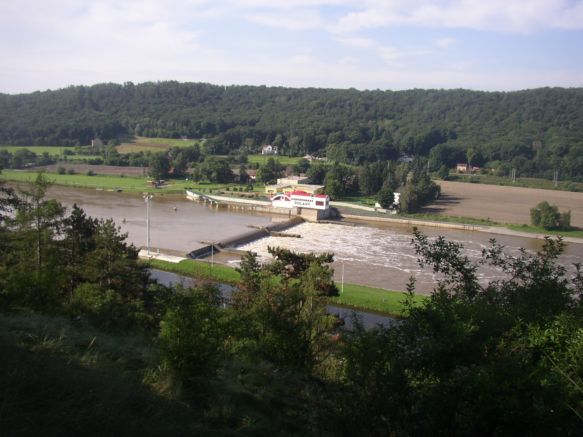 Dolany Sluice on the Vltava River, Mělník District, Czech Republic.